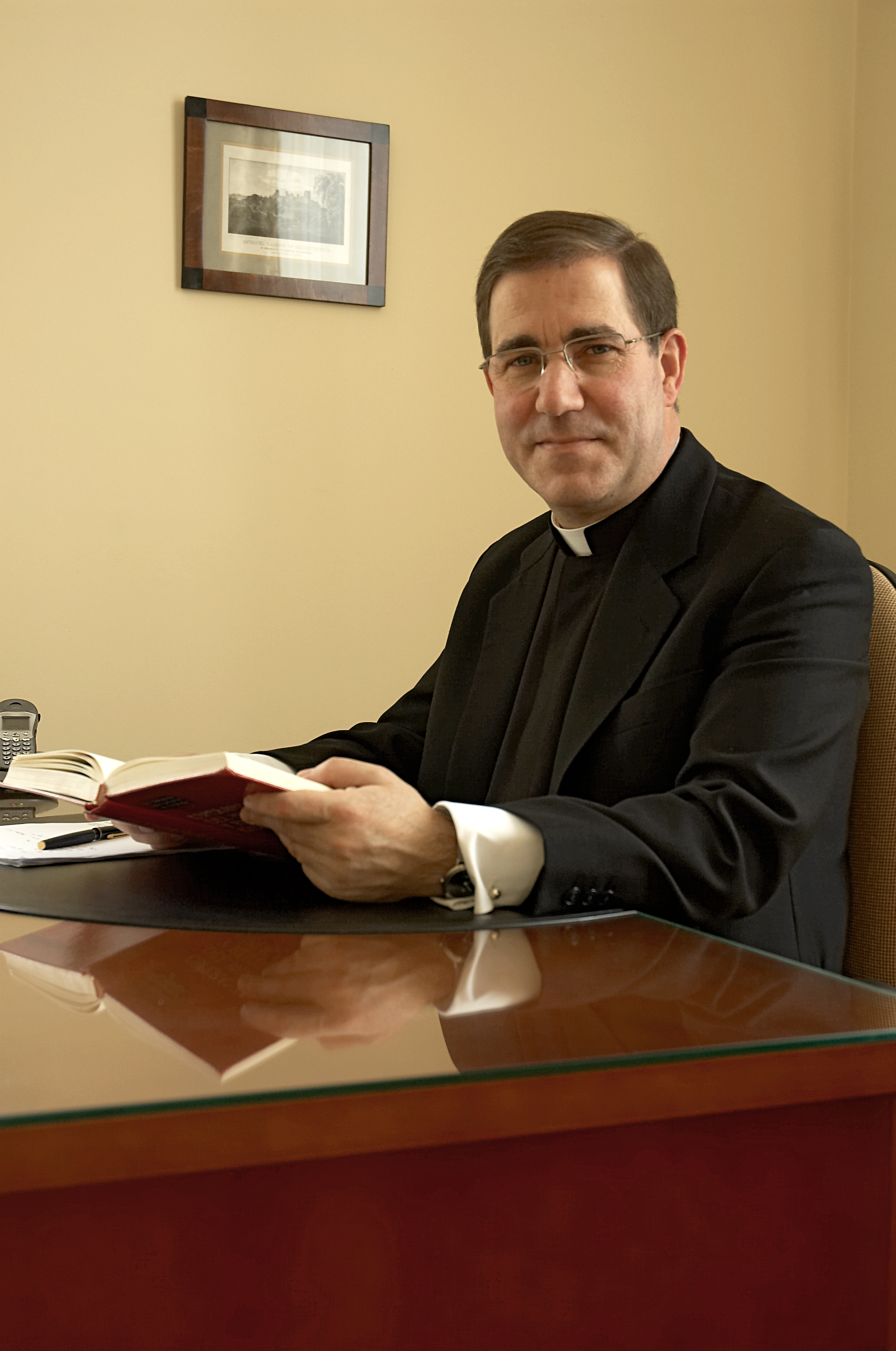 Polish priest from Opus Dei